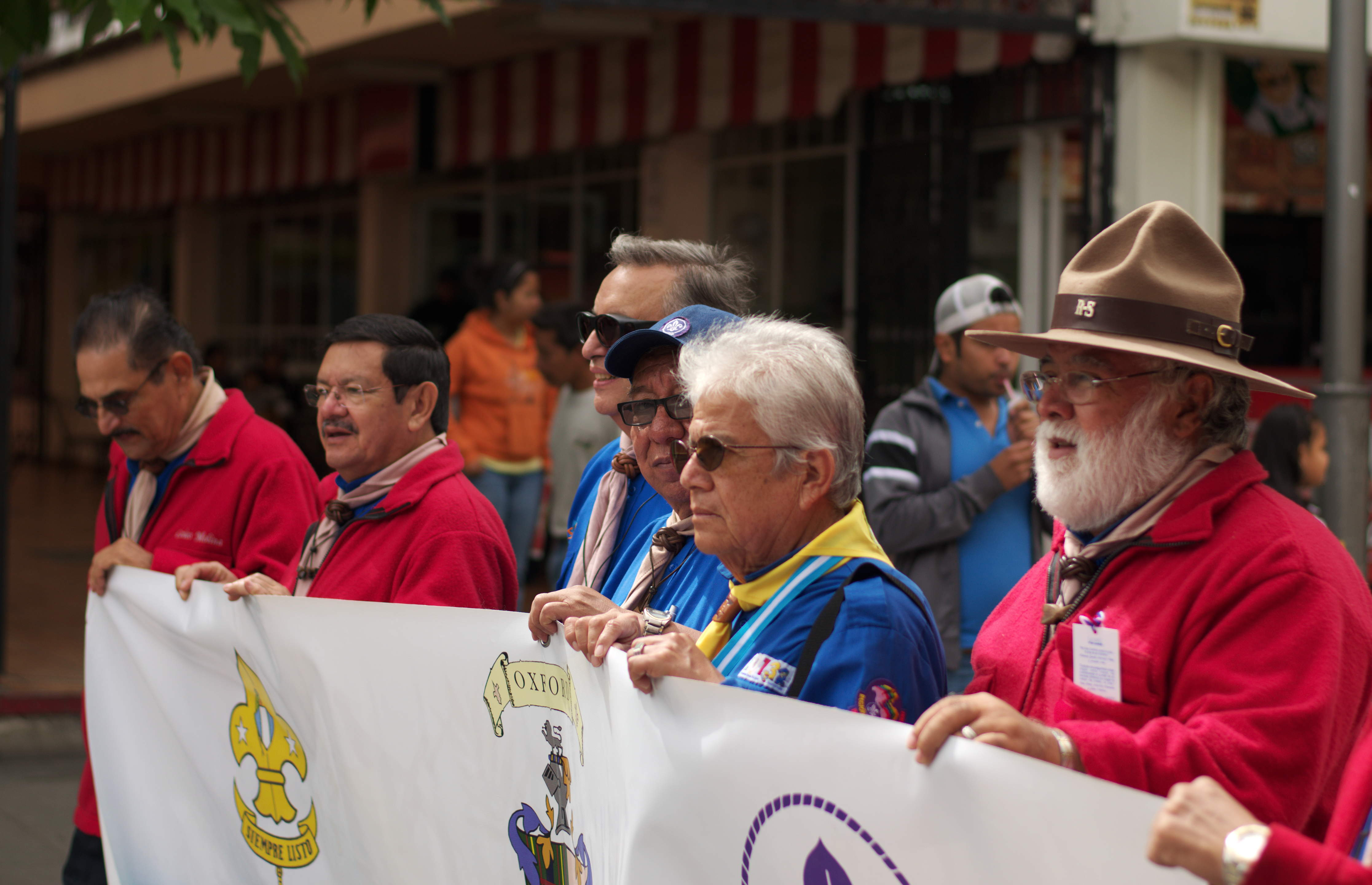 Paseo de la Sexta, Guatemala City